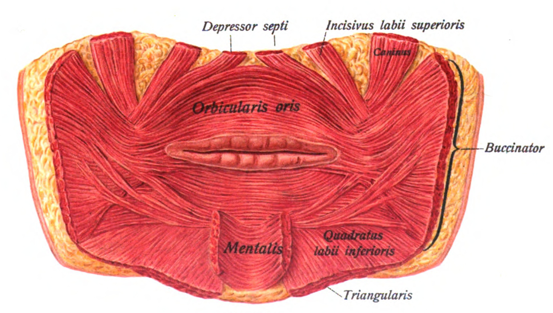 An anatomical illustration from the 1909 American edition of Sobotta's Atlas and Text-book of Human Anatomy with English terminology